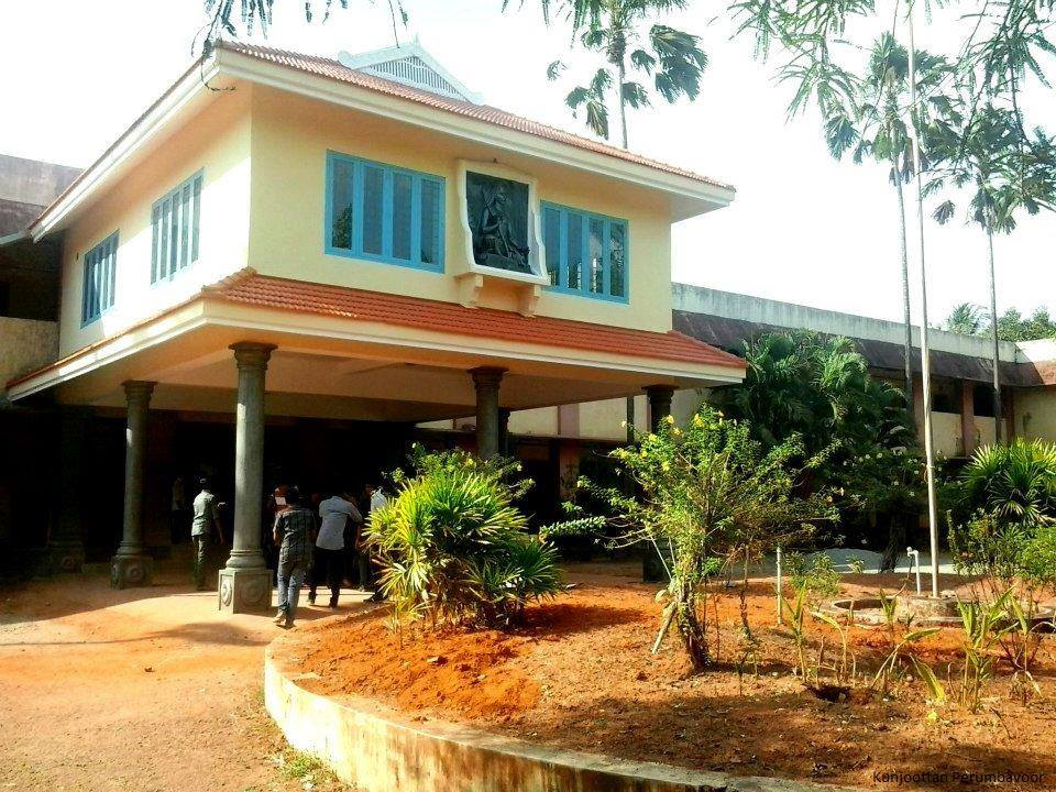 campus pic